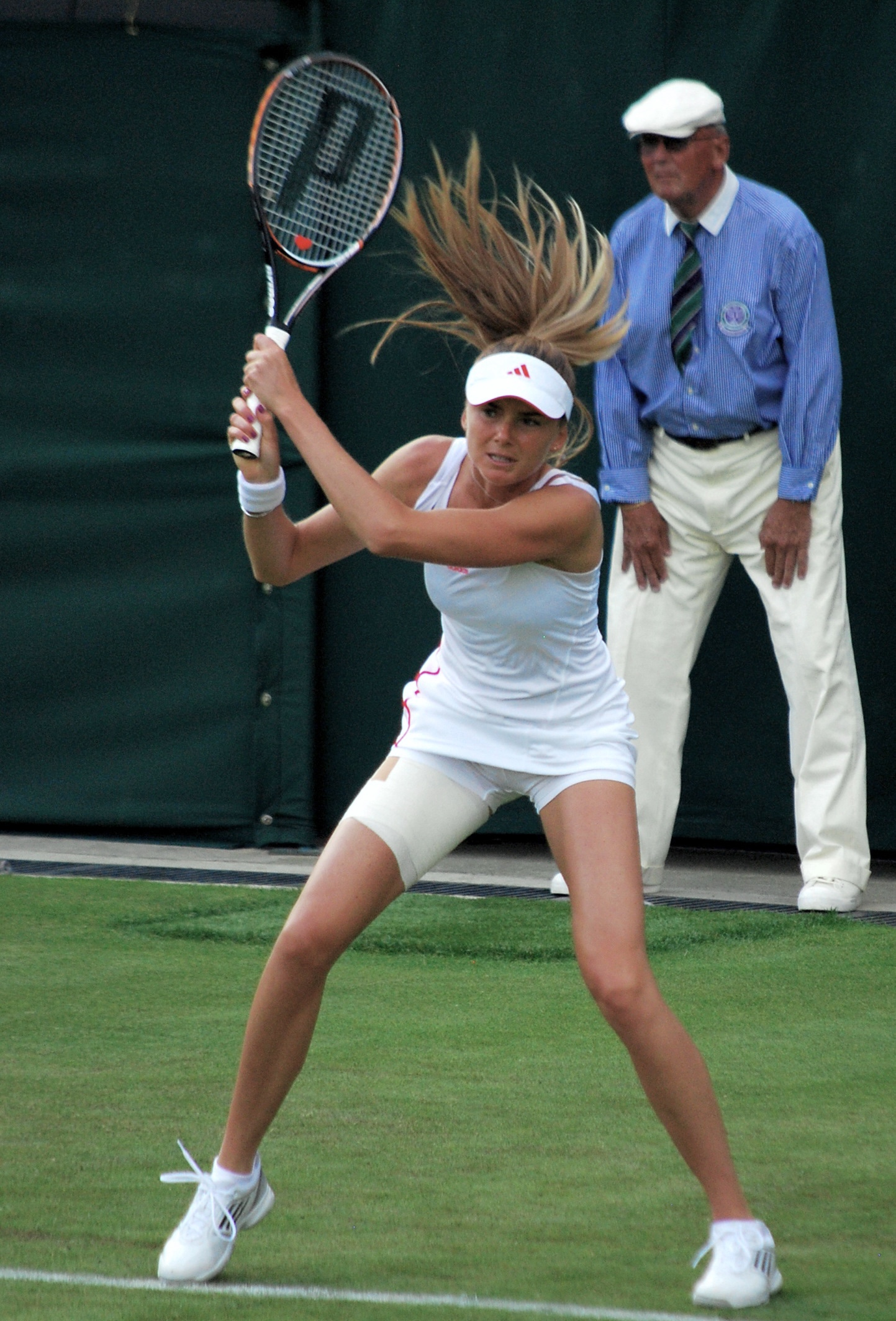 Daniela Hantuchová during her first round match with Jamie Lee Hampton, on Day 1 of Wimbledon 2012. Jamie won 6-4, 7-6. .